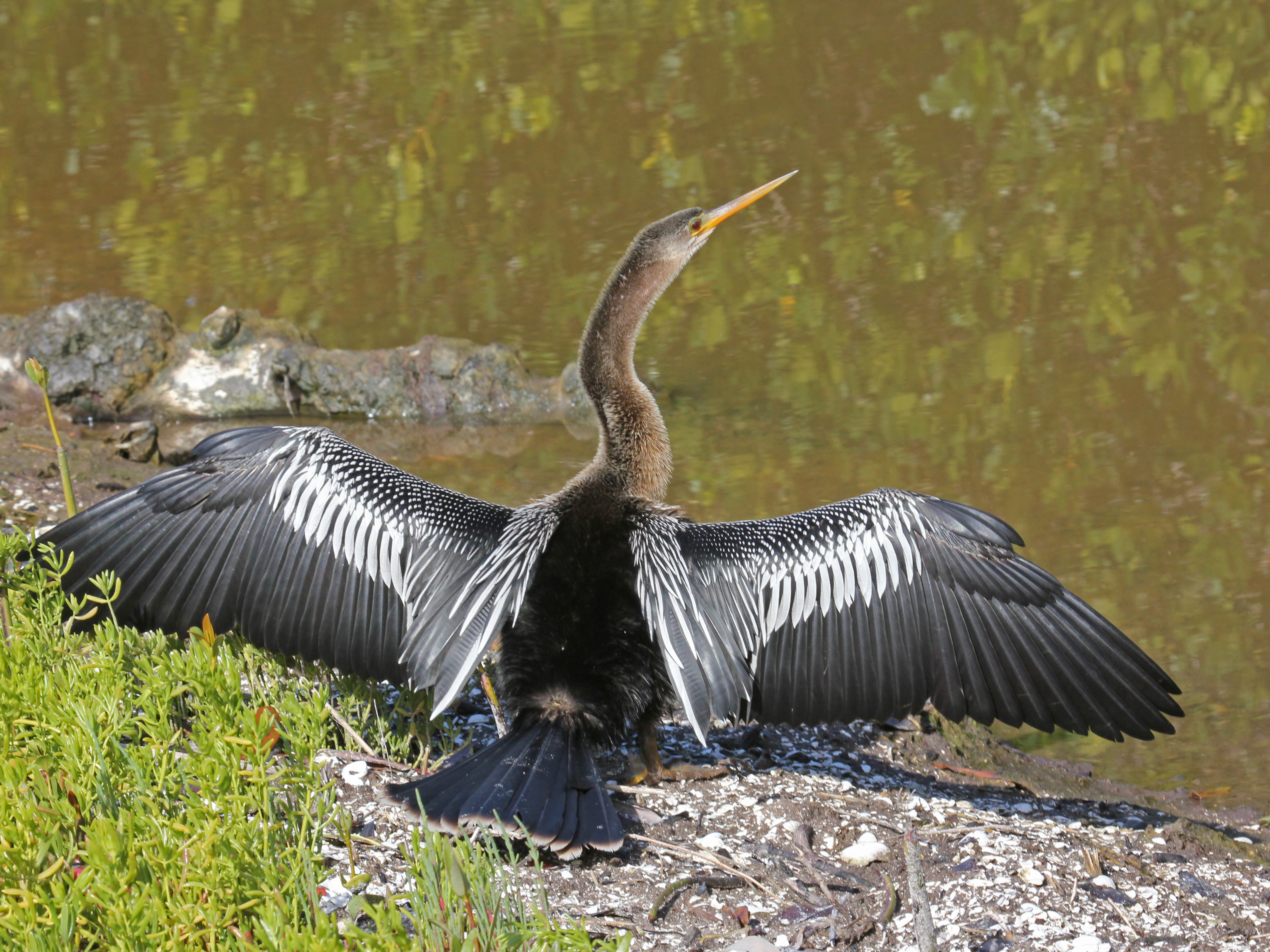 Anhinga (Anhinga anhinga) at Ding Darling National Wildlife Refuge, Sanibel Island, Florida